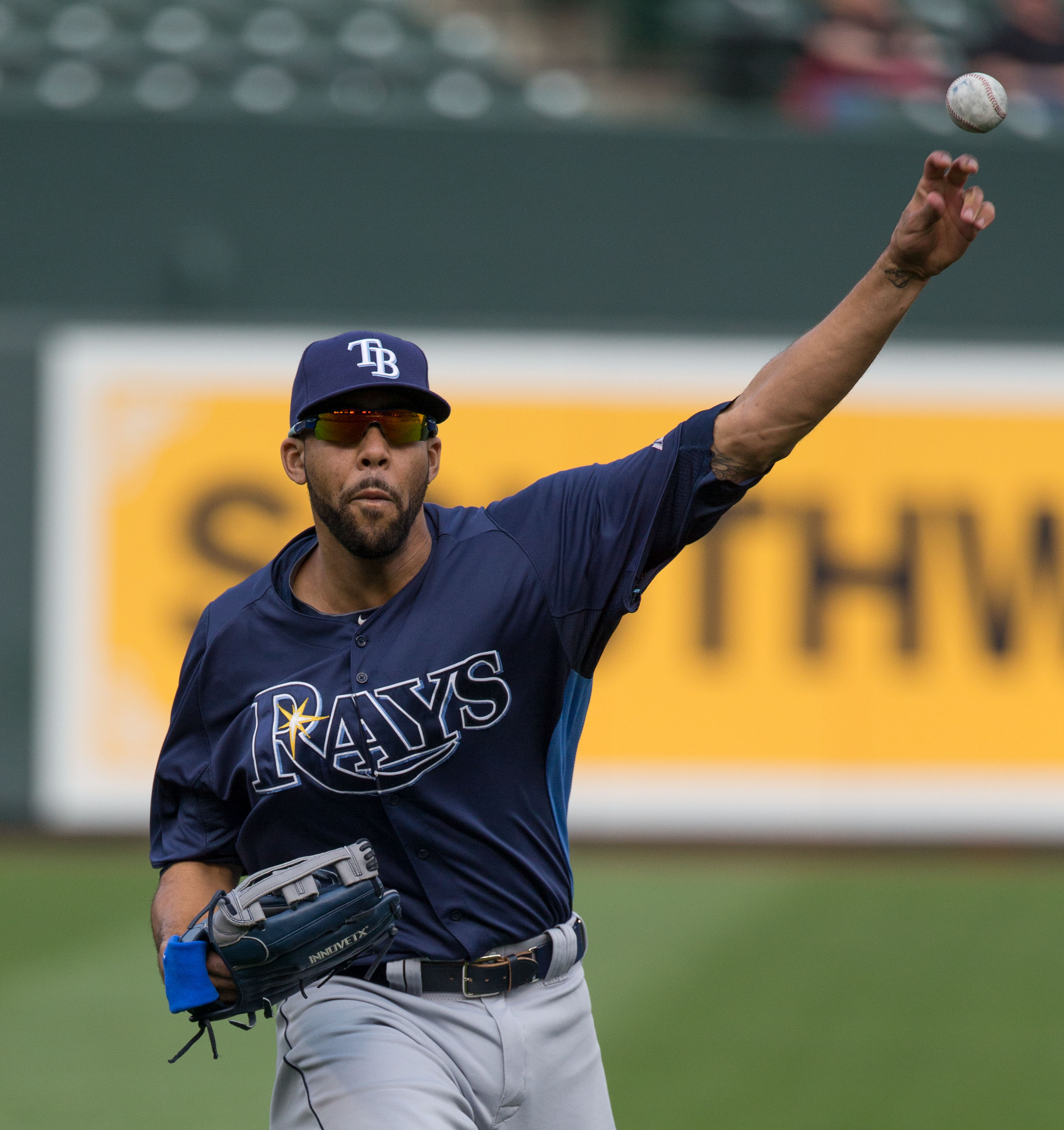 Tampa Bay Rays at Baltimore Orioles April 17, 2013